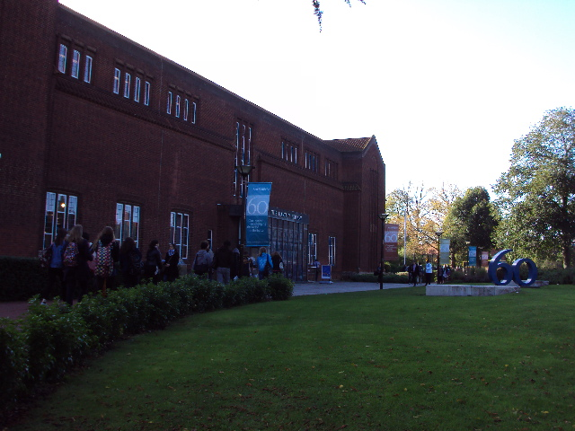 The University of Southampton's Hartley Library complex as seen during the winter of 2012/13, complete with 60th anniversary numerals outside, 60 banners on lamp posts and window decoration advertising the 150th anniversary of the original institution.